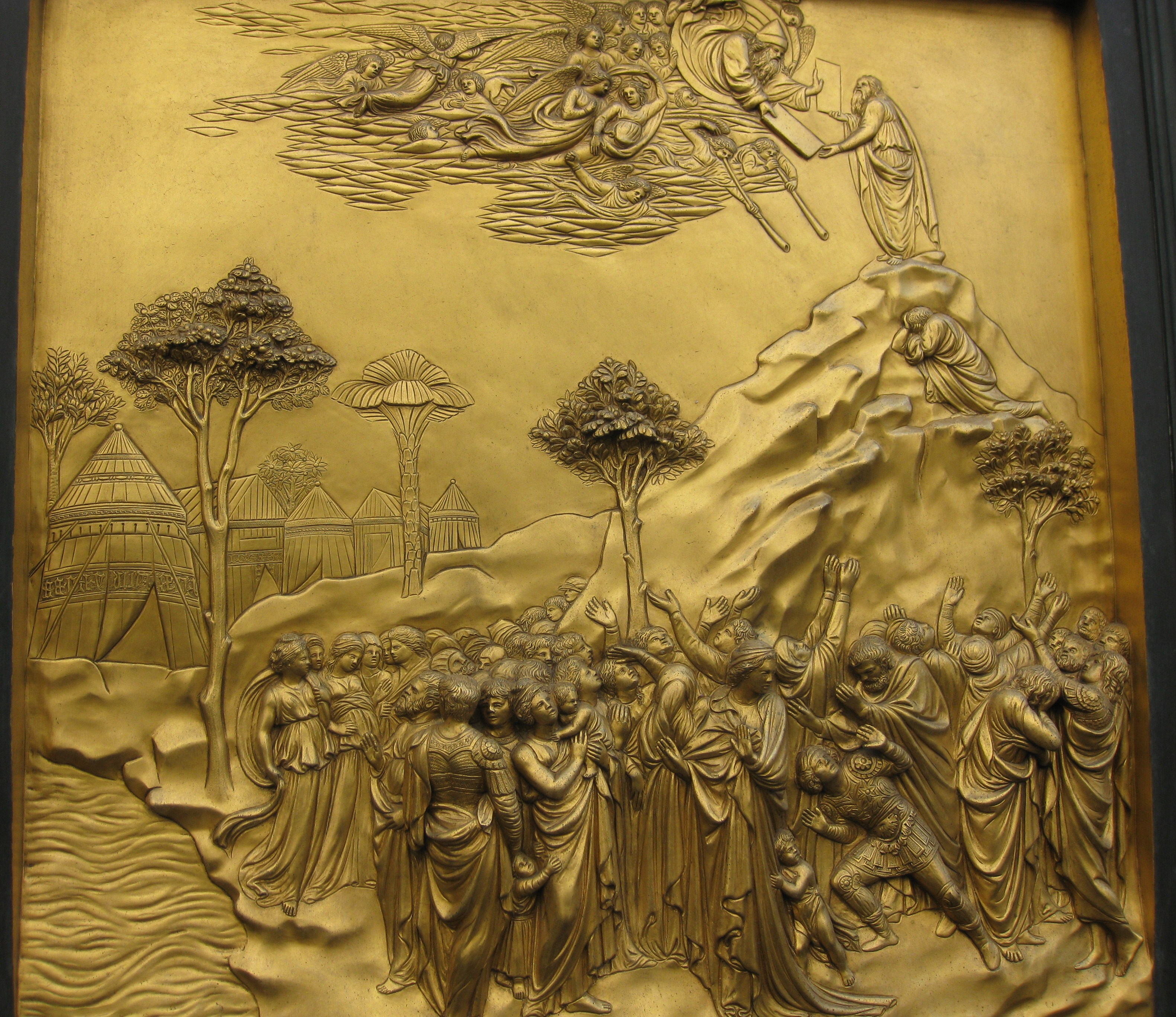 The Gates of Paradise